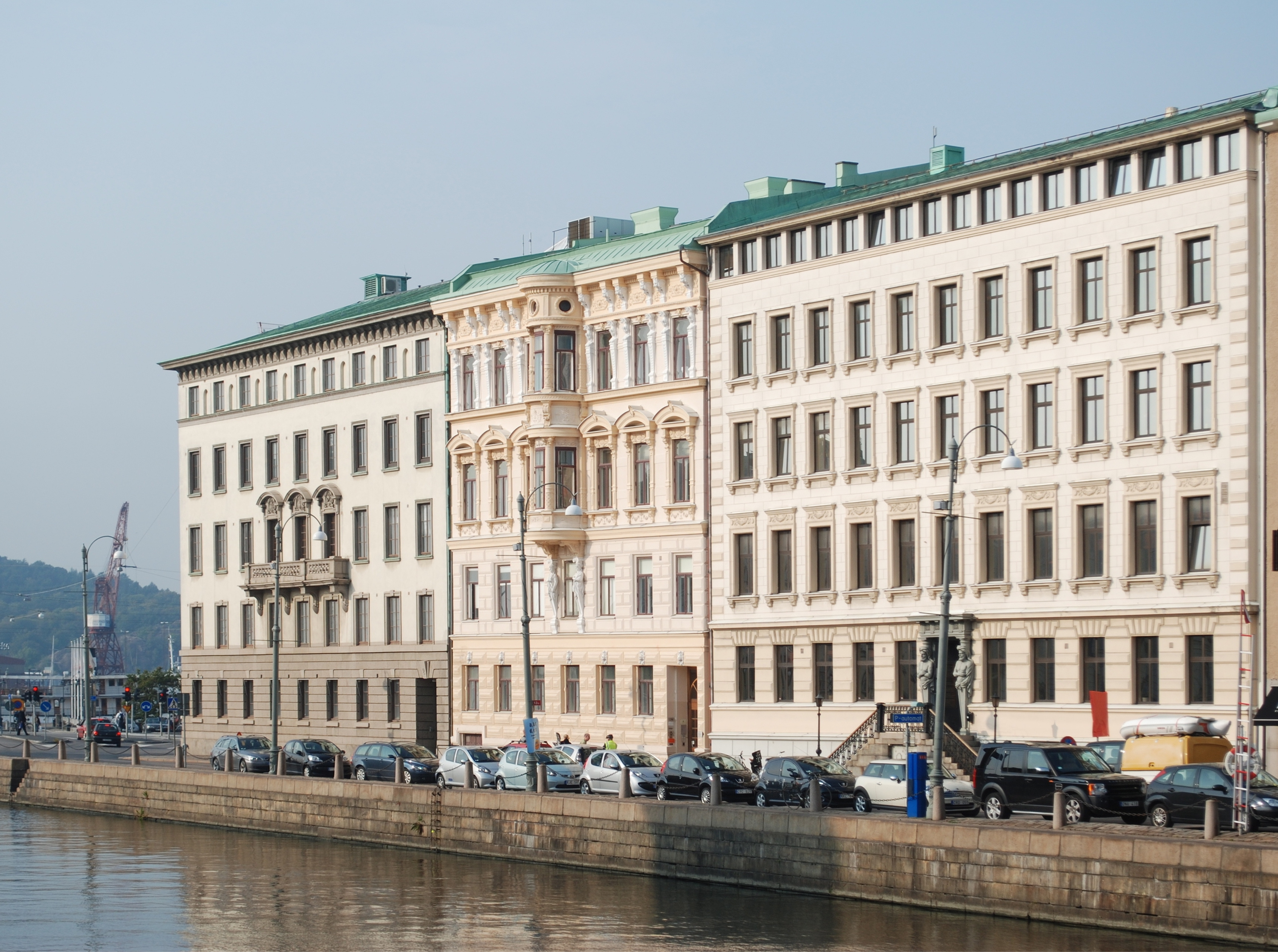 Norra Hamngatan 2-6.